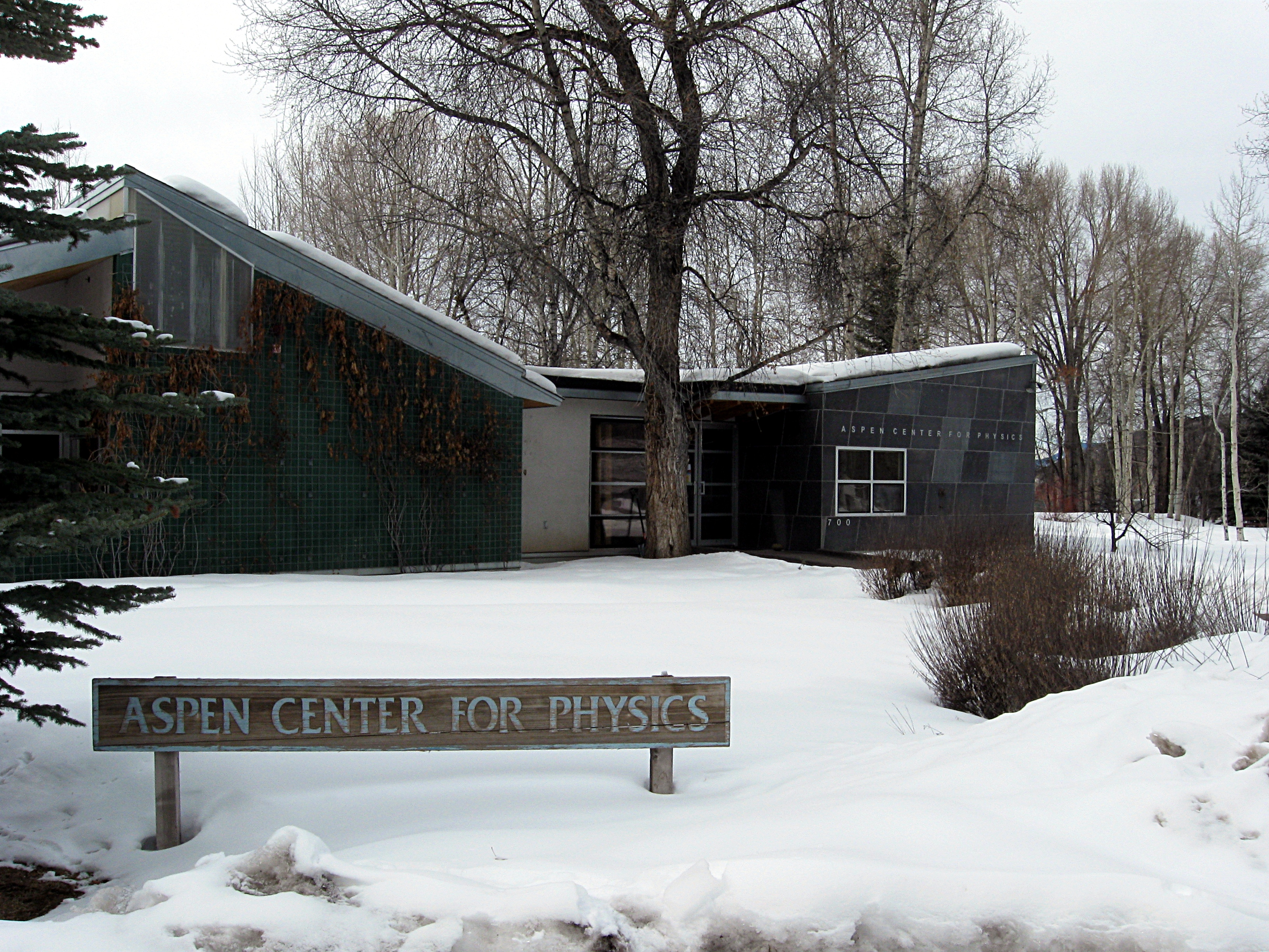 The Aspen Center for Physics, in Aspen, Colorado, February 2010